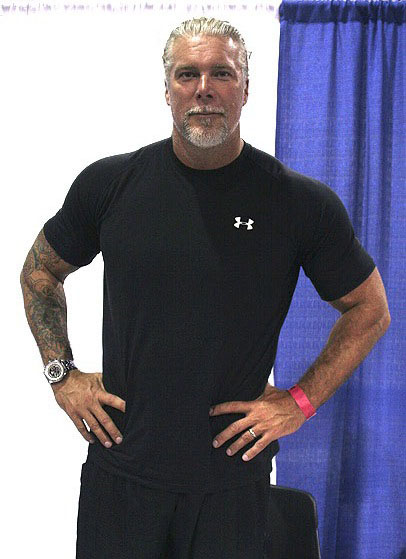 Kevin Nash sure is big